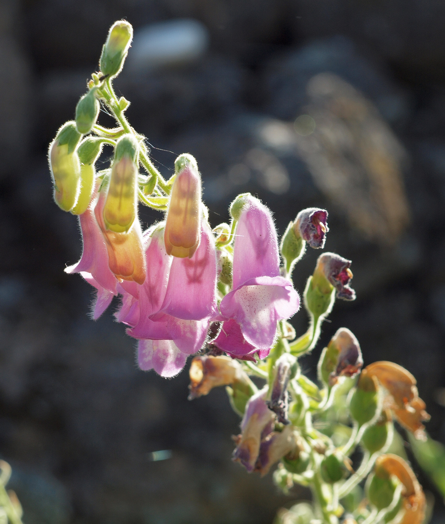 Digitalis thapsi flowers. Losar de la Vera (Cáceres, España).